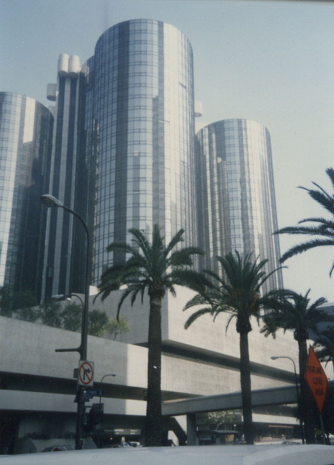 The Westin Bonaventure Hotel in downtown Los Angeles.